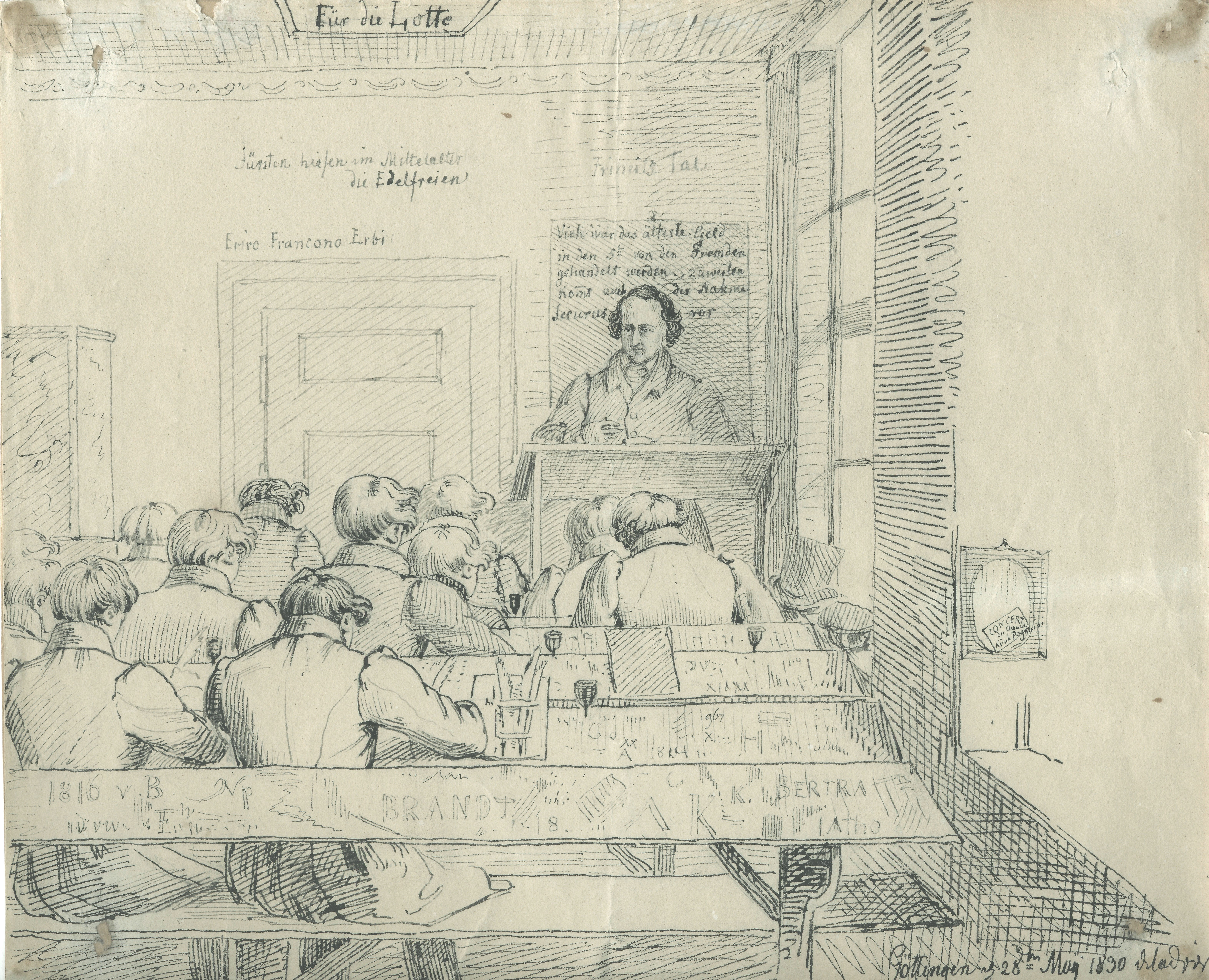 "In a lecture with Jacob Grimm", sketch by Ludwig Emil Grimm, Göttingen, May 28, 1830